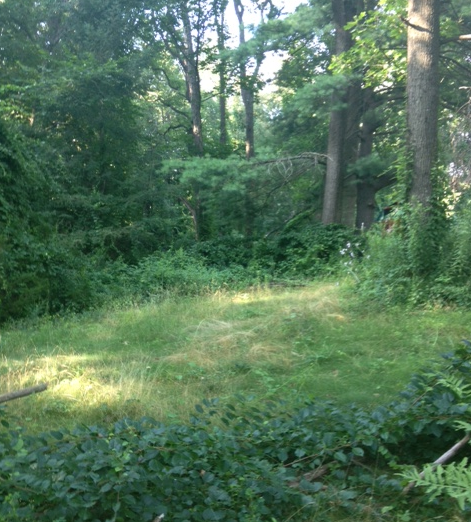 woods